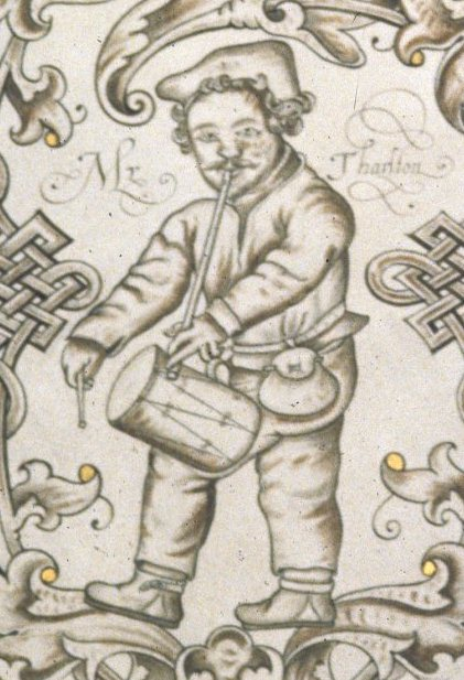 Illustration of Richard Tarleton from Harley 3885 f. 19